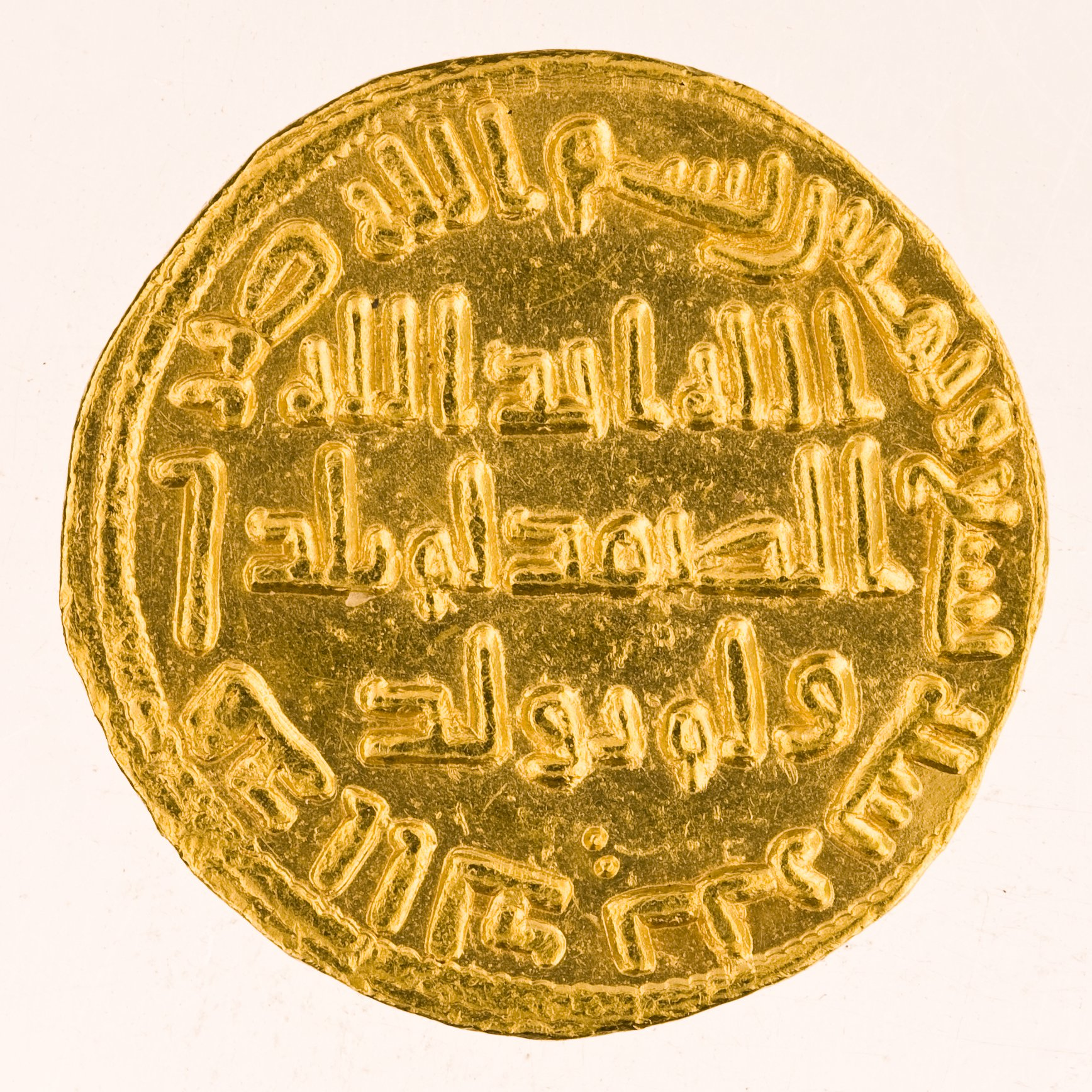 The reverse of a gold dinar minted in Damascus in the name of the Umayyad Caliph al-Walid I, 707/08 CE